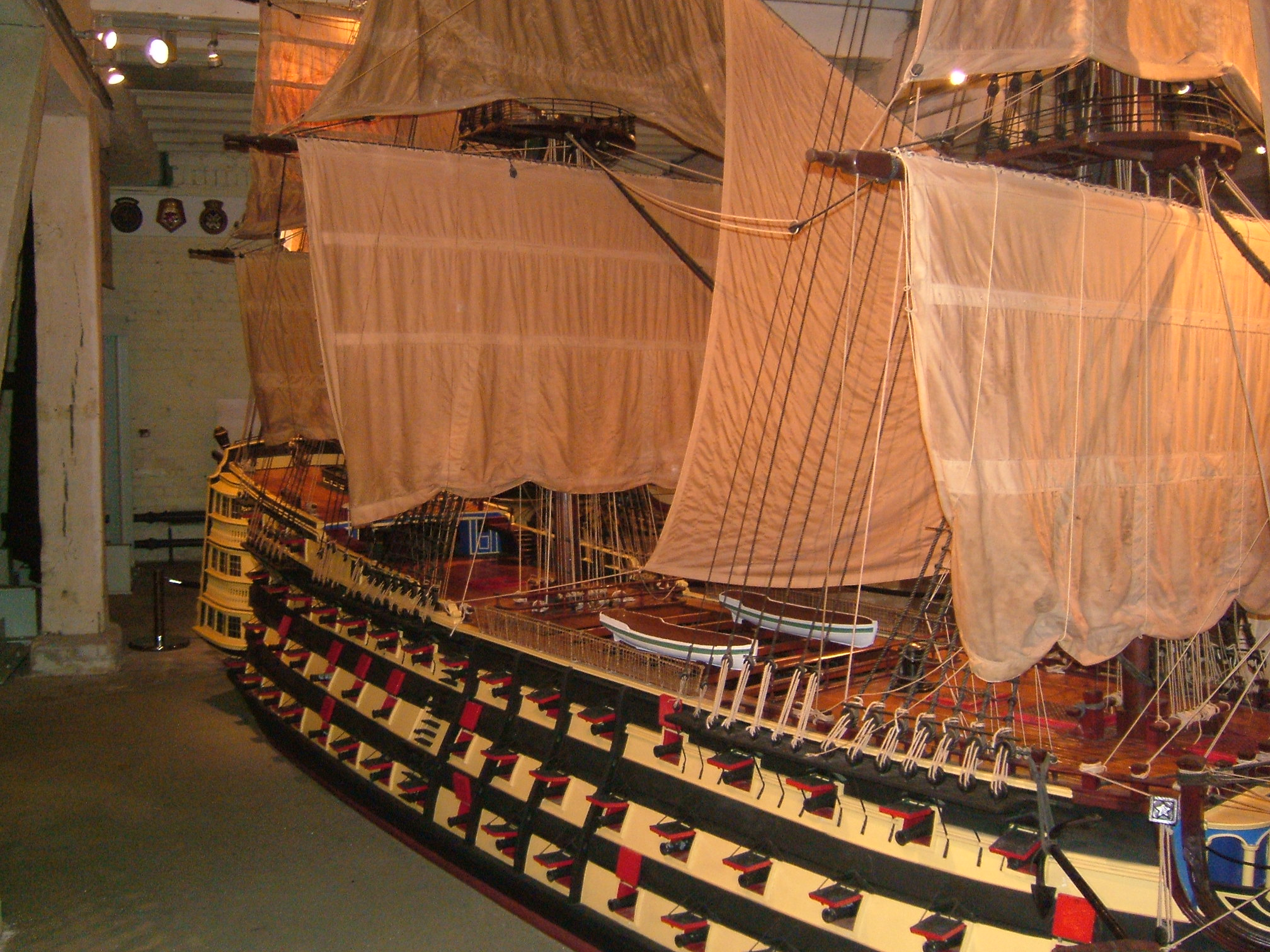 Chatham Dockyard, Kent,England has the finest collection of 18th and 19th century naval dockyard buildings many of which are scheduled as ancient monuments. HMS Victory made for the 1941 film That Hamilton Woman starring Laurence Olivier and Vivien Leigh - OpenStreetMap(Info) Category: HMS Victory (1765)